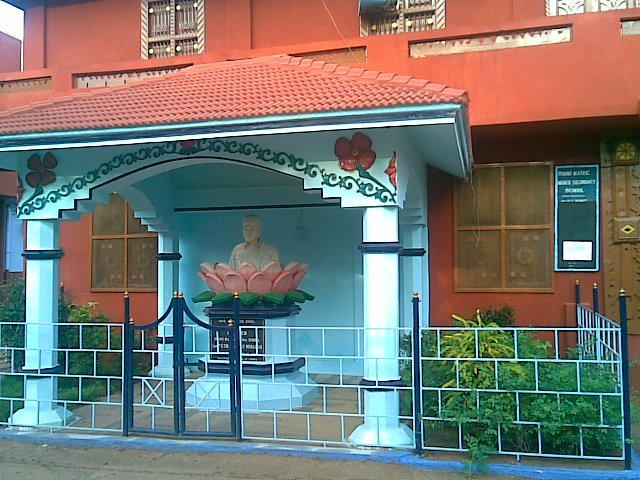 Front view of Ponnu Matriculation Higher Sec School. The statue is of founder's Thangavel Mudaliyar.